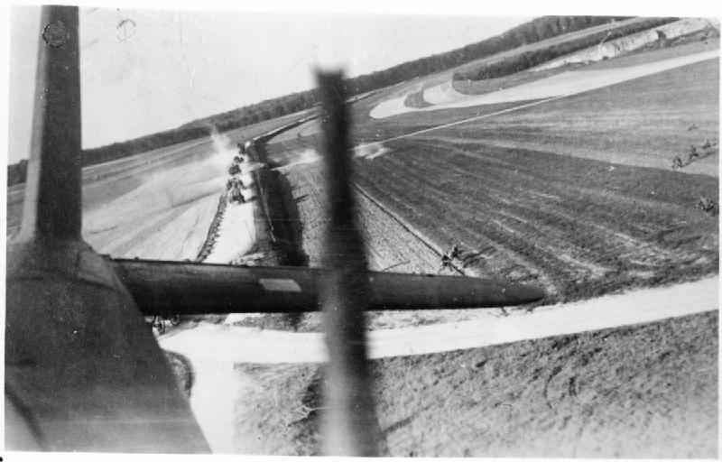 The British Expeditionary Force (bef) in France 1939-1940 The Royal Air Force in France 1939 - 1940: A low level attack by Fairey Battle aircraft on a German horse-drawn transport column.